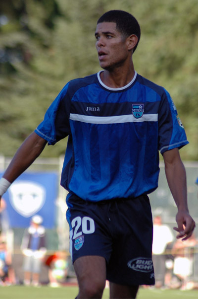 Photo of soccer player, Luis Calix.